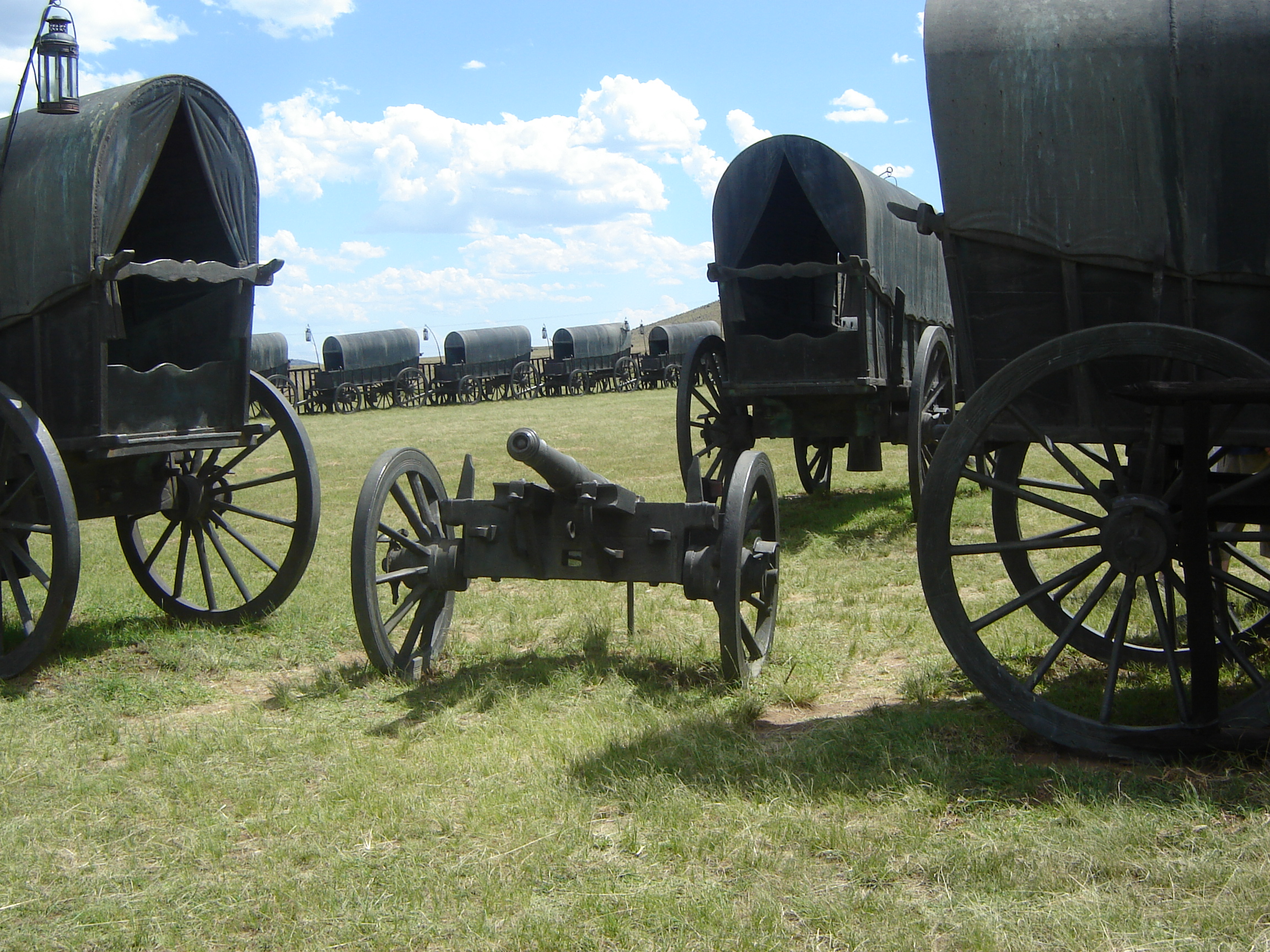 The ceremonial copper clad iron wagons at the Battle of Blood River Monument in Kwazulu-Natal